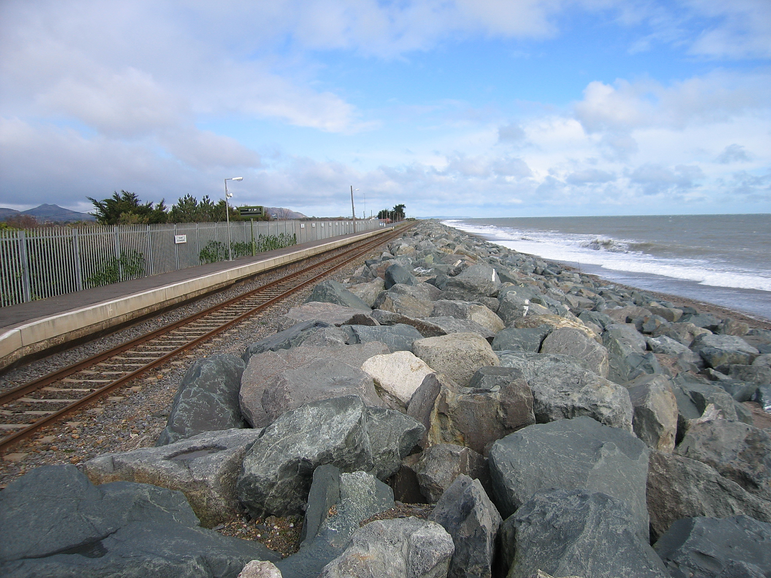 Kilcoole Railway Station. In anticipation of the Mediterranean climate expected due to Global Warming the station is in the new Irish Rail al fresco style. The rocks will protect the station from the inevitable rise in sea level. This is a fine example of Irish Rail planning.